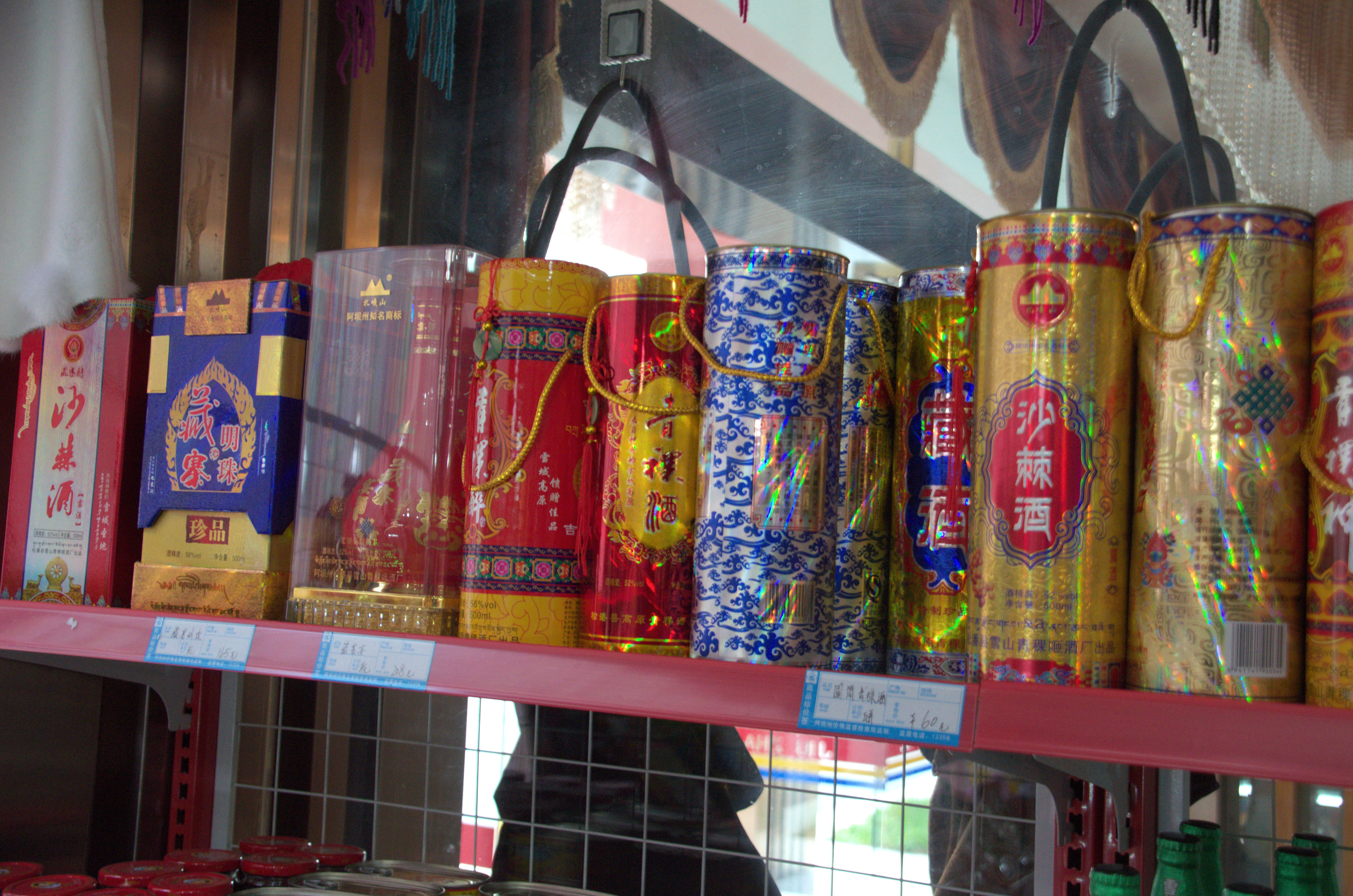 Assorted bottles of highland barley alcohol in Jiuzhaigou County, Sichuan province, People Republic of China.